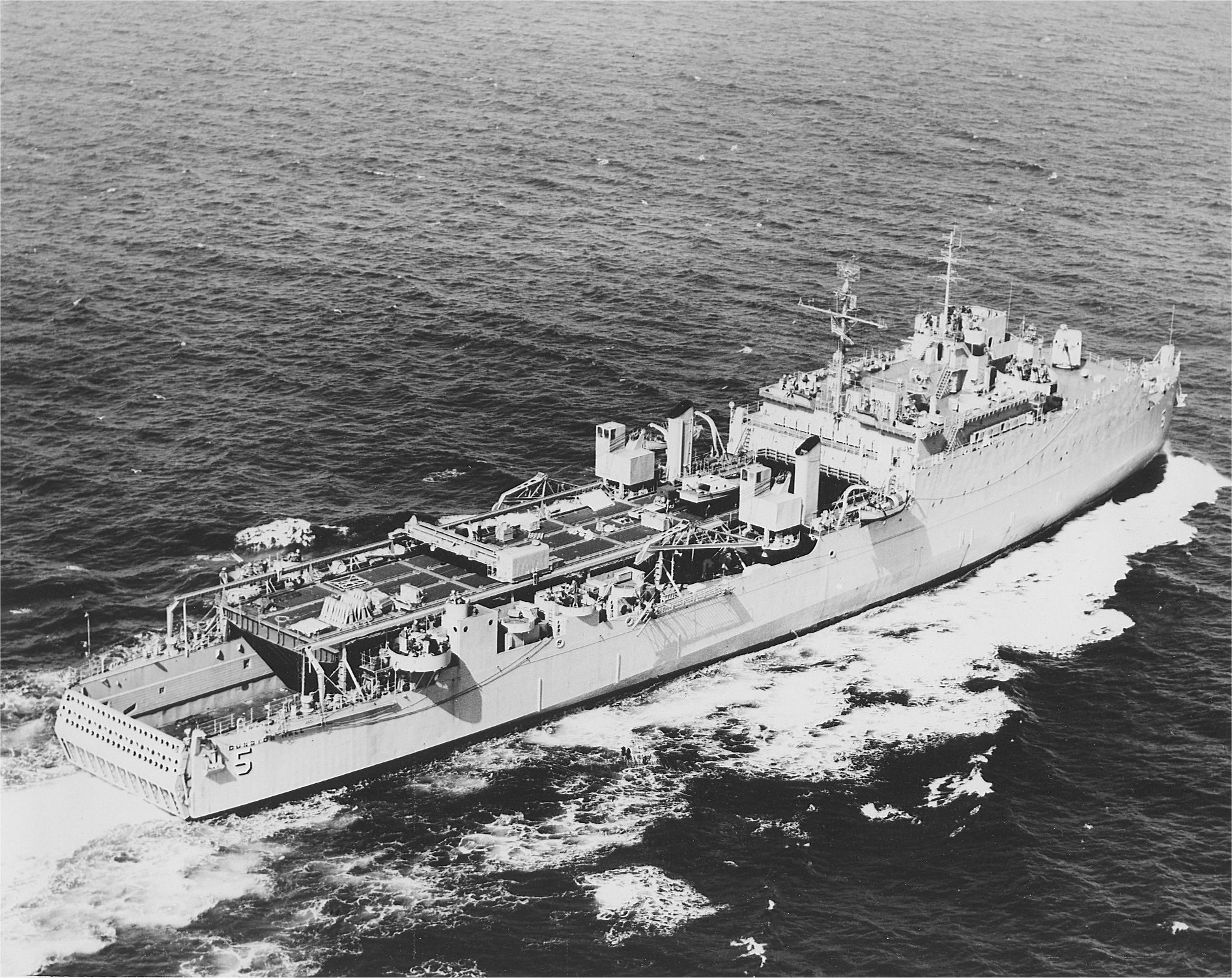 USS Gunston Hall (LSD-5) underway, soon after recommissioning in March 1949, location unknown. US Navy photo.